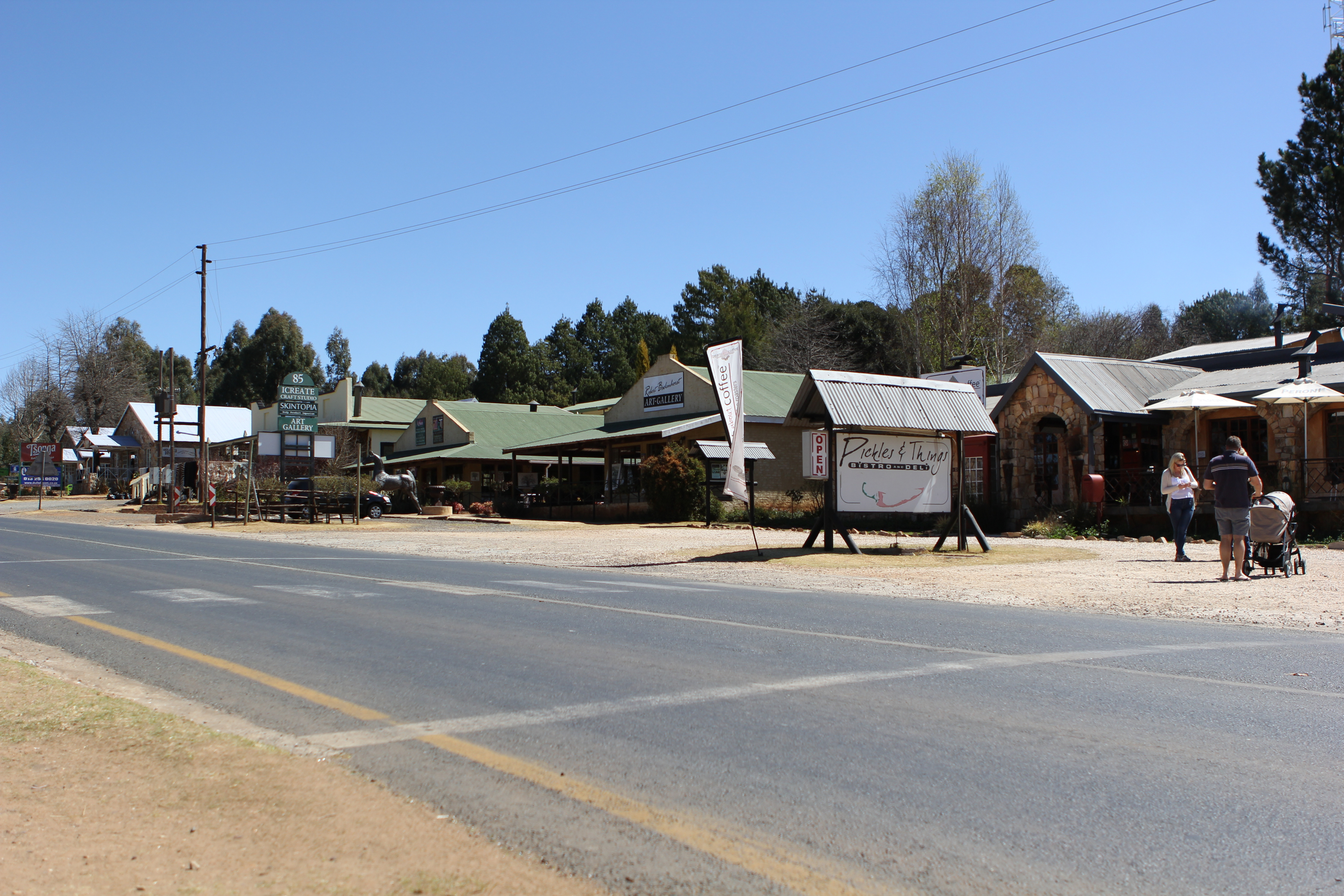 Not Canada, but Dullstroom - a tiny city in South Africa